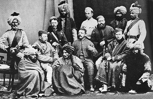 5th Punjab Infantry, Punjab Frontier Force, now 10 Frontier Force (Pakistan Army), 1878.